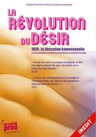 LA REVOLUTION DU DESIR